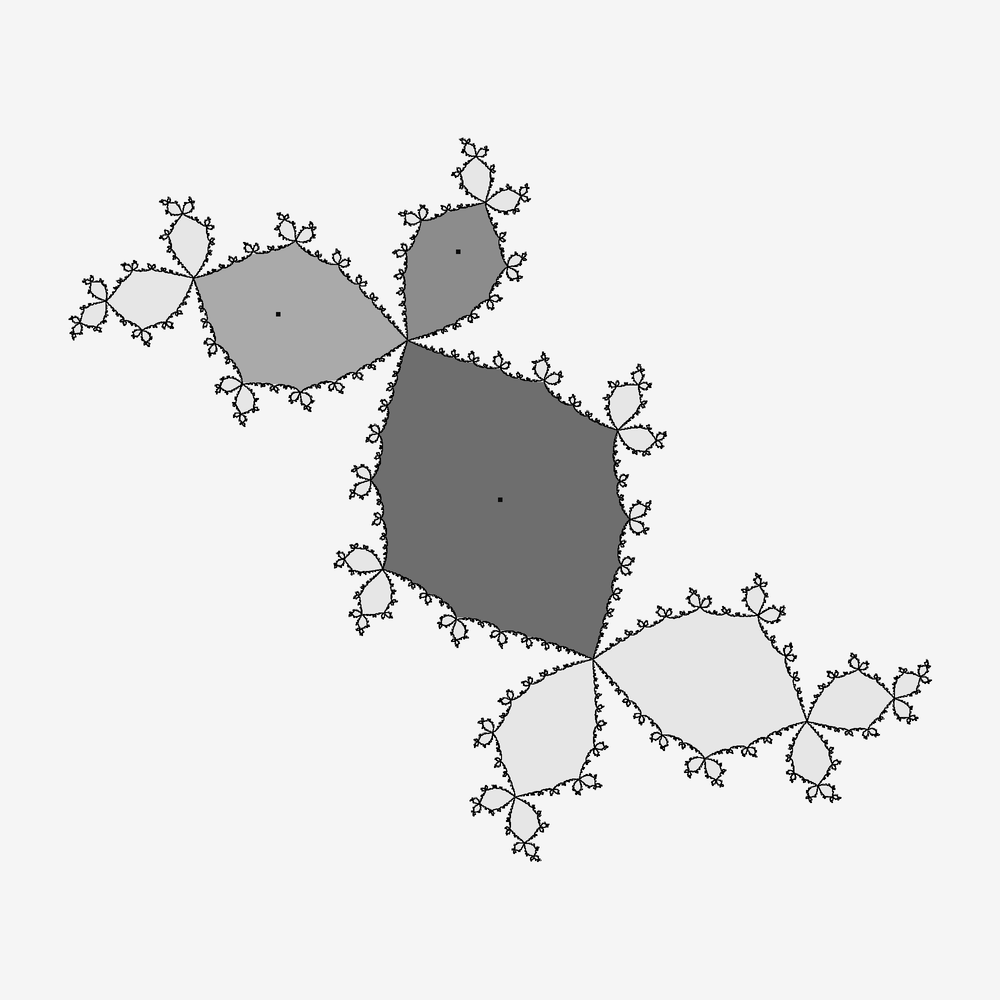 Immediate basin of attraction for Julia set for fc(z)=z*z +c. Parameter c is in the center of period 3 component of Mandelbrot set.